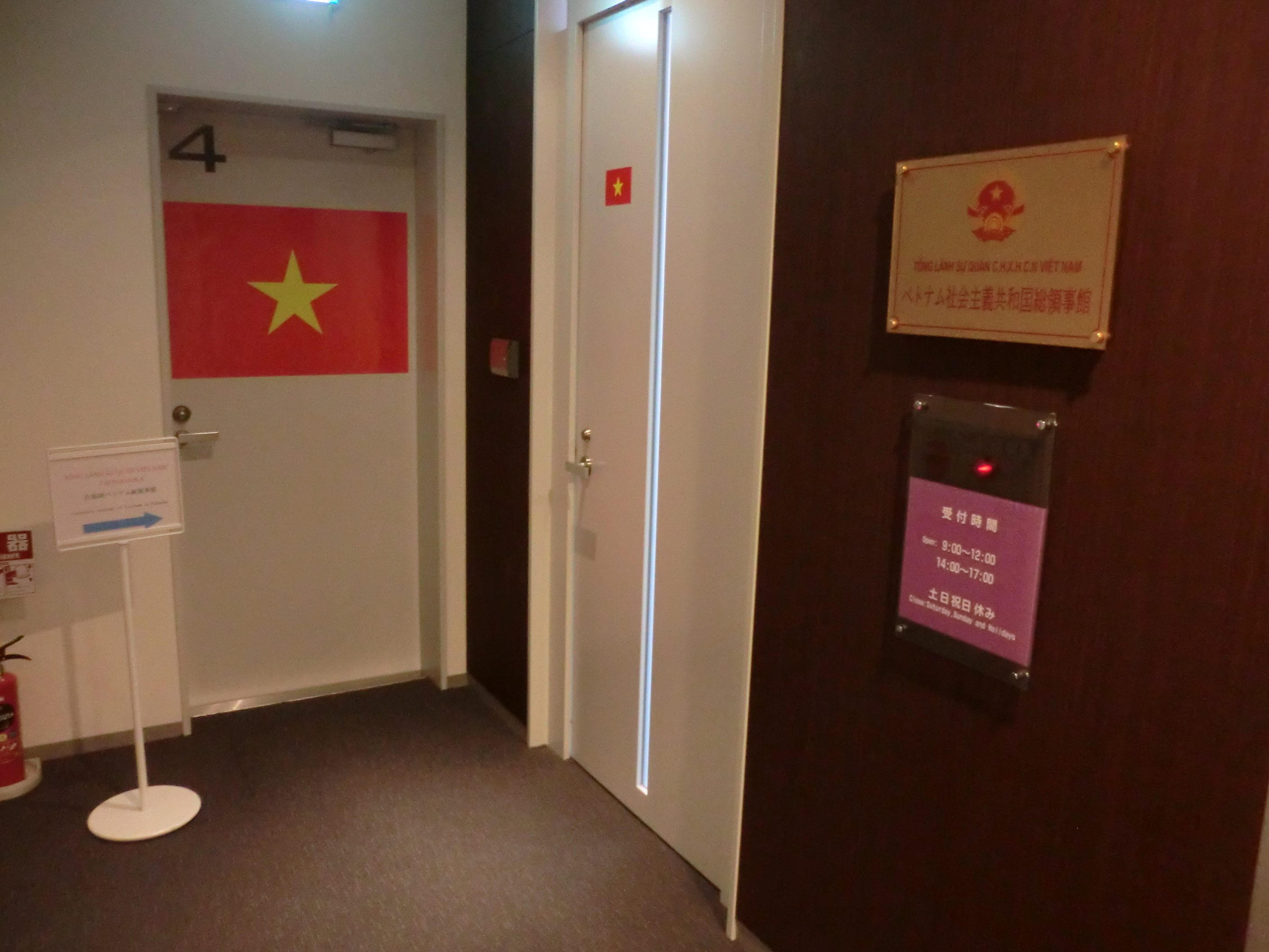 Consulate-General of the Socialist Republic of Viet Nam in Fukuoka at Hakata ward, Fukuoka, Japan.